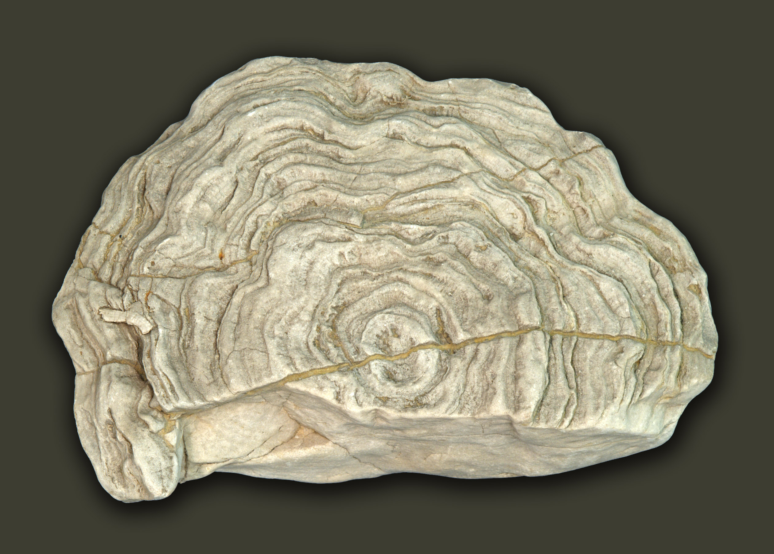 Stromatopora from Gotland, Sweden (Silur), max. diameter: 45 cm